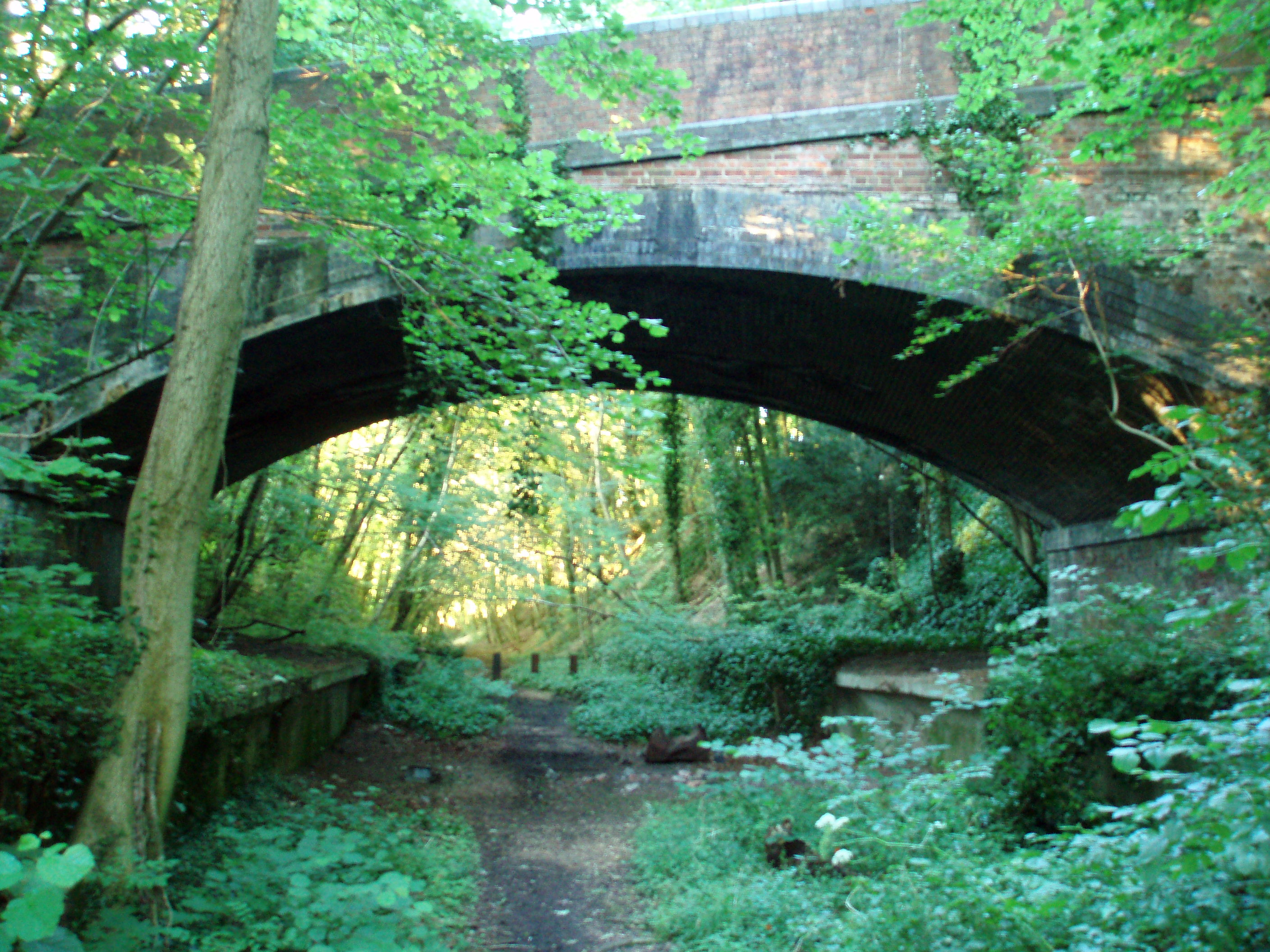 Photograph of the site of West Meon Station on the now disused Meon Valley Railway, looking north. The platforms are still intact, as is the brick over-bridge which still carries a public road. The station buildings (now demolished) would have stood to the left of the shot. Taken by J. Grover, 2007